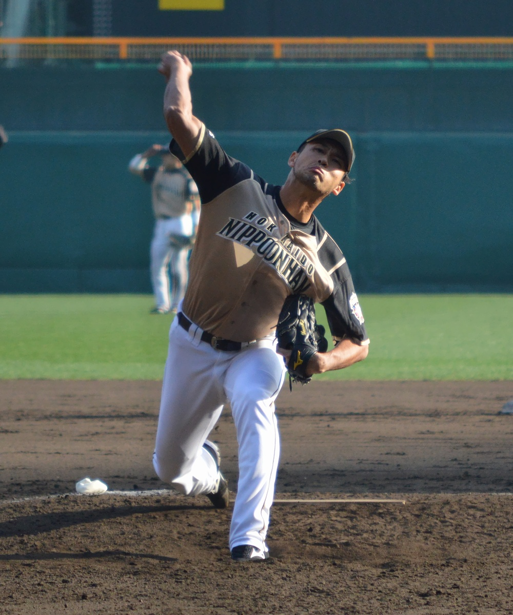 NF-Toshiyuki-Yanuki20130309